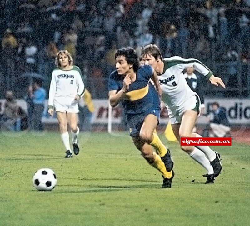 Boca Juniors player José L. Salinas v. Borussia Monchengladbach.